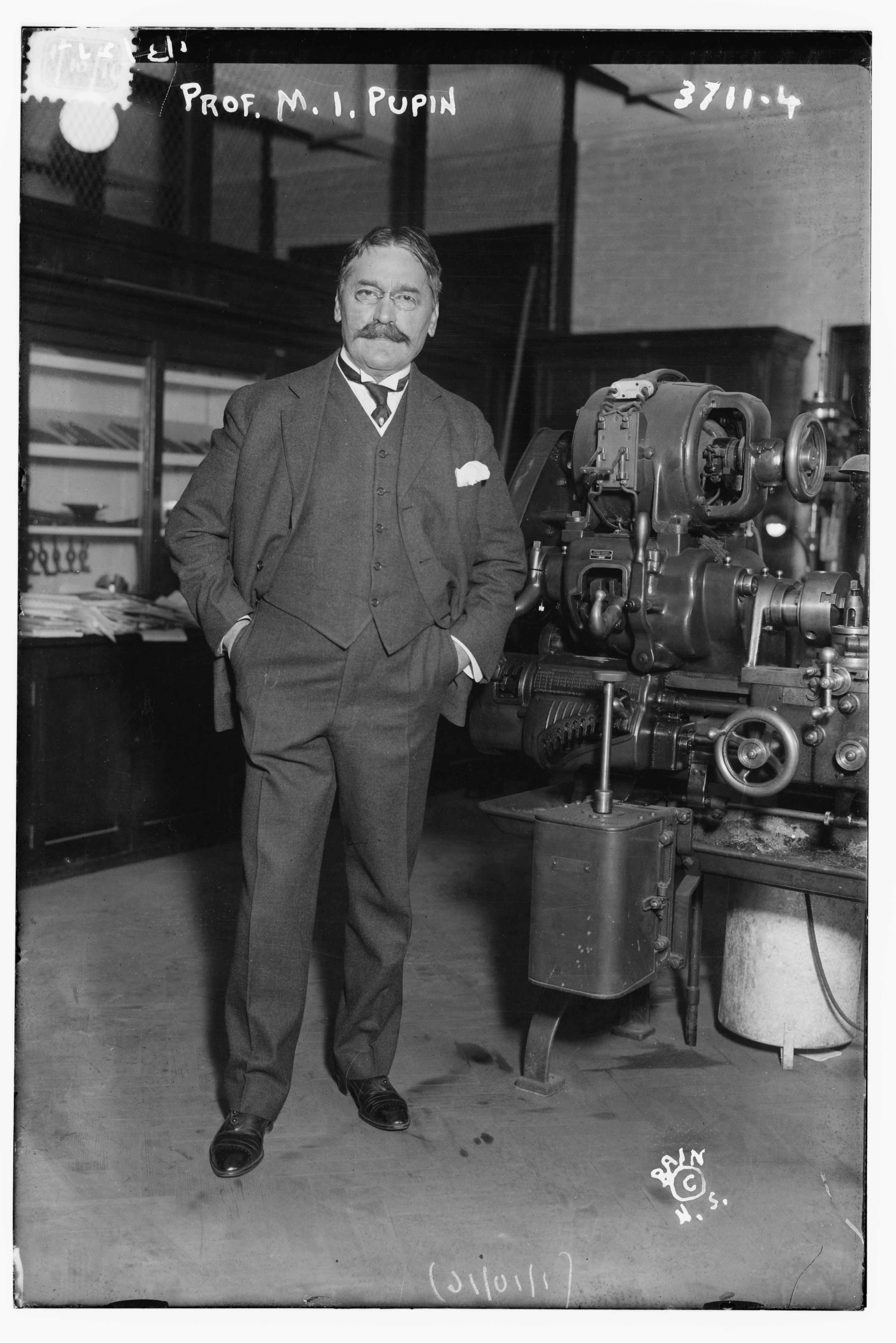 Mihajlo Pupin in 1916